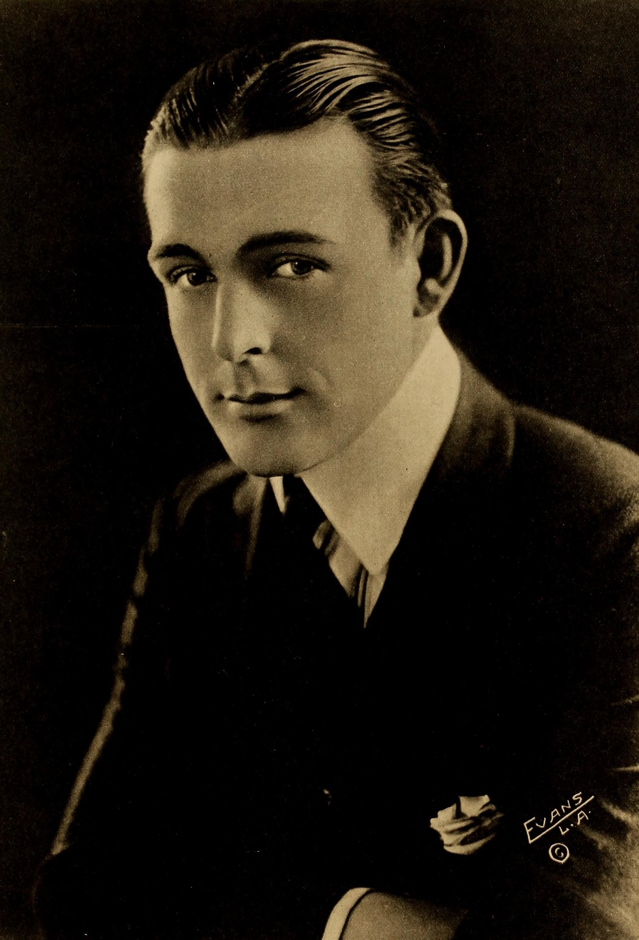 Motion Picture, July 1918